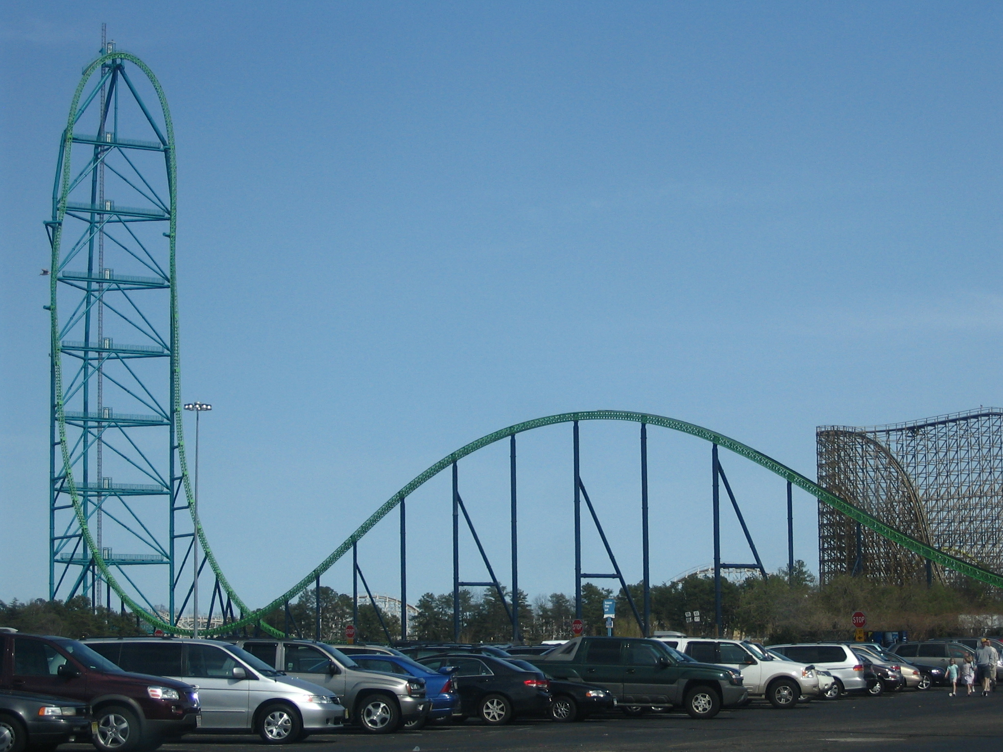 Kingda Ka, as seen from the parking lot